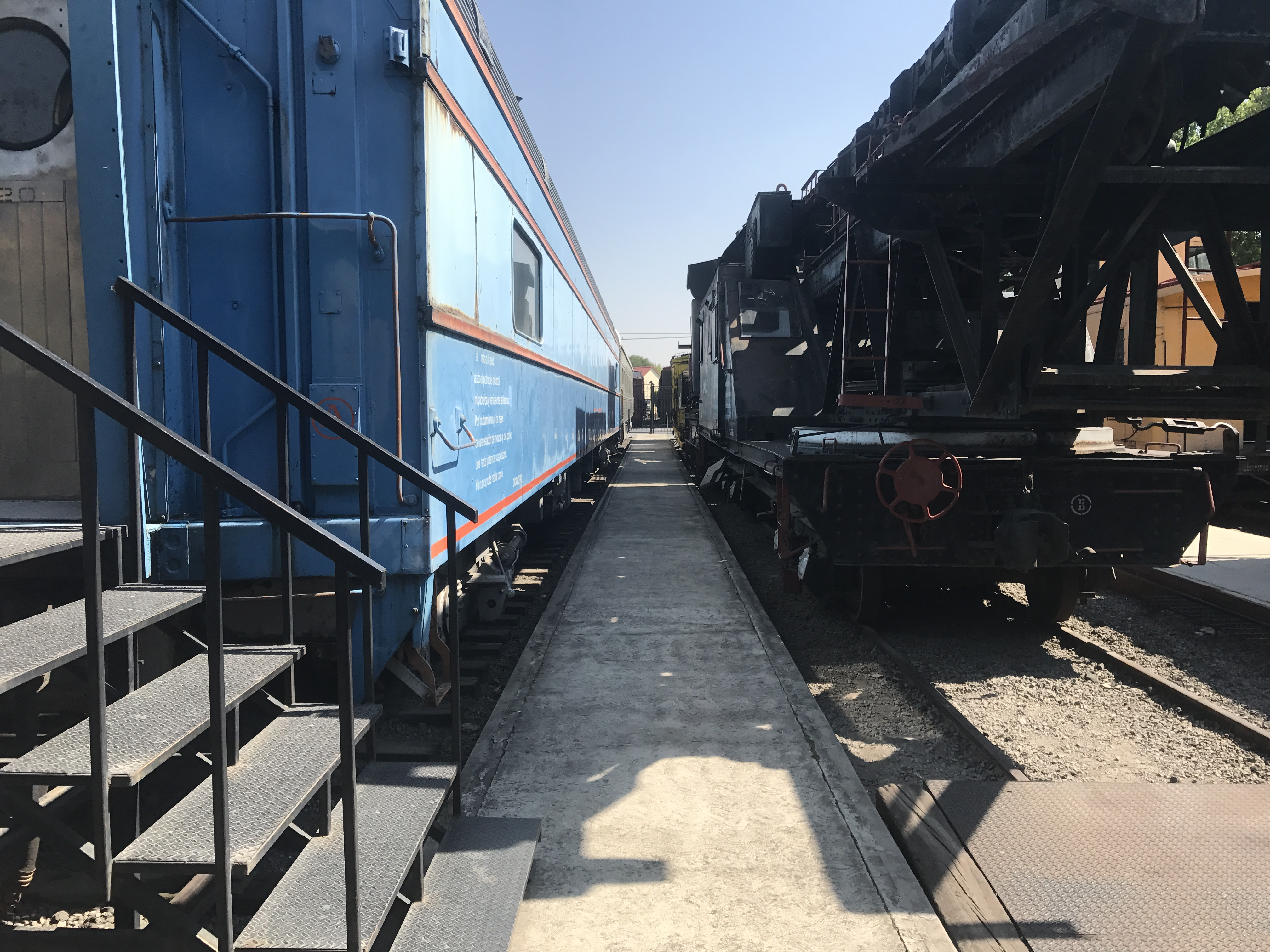 Hallway between a blue train and a crane. National Museum of the Railway in Puebla, Mexico